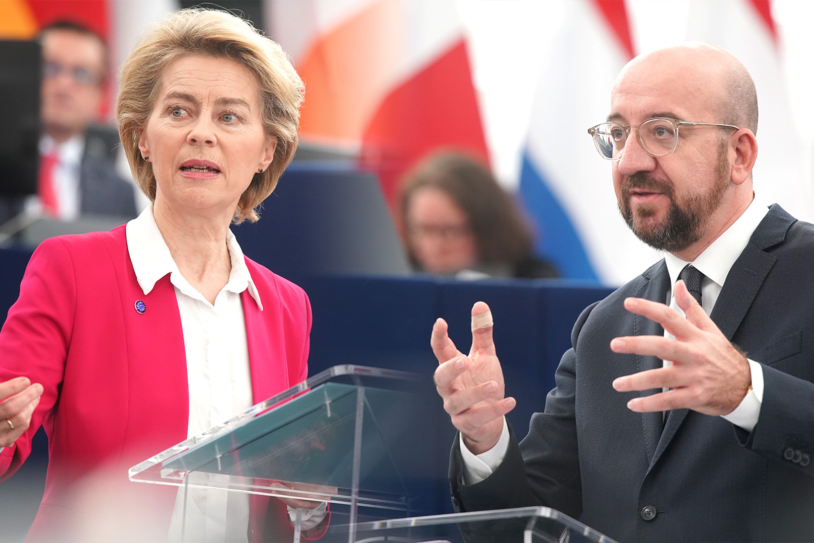 Most MEPs urged European Council President Charles Michel to ensure that the EU long-term budget reflects the climate neutrality goals agreed during the December summit. During the debate on the results of the 12-13 December EU summit with Council President Charles Michel and Commission President von der Leyen, political group leaders representing a majority in Parliament welcomed the decision on the EU’s long-term climate strategy that would lead to the EU becoming climate neutral by 2050. However, they heavily criticised the European Council’s unwillingness to agree to a viable solution on the 2021-2027 EU budget, which will need to provide appropriate funding not only for its traditional beneficiaries (citizens, regions, cities, farmers, researchers, students, NGOs and businesses), but also for the 2050 climate neutrality goals and the European Green Deal. Many speakers asked for either the European Union’s own resources mechanism or the decision-making at Council level to be reformed, or both, to enable the EU to address key challenges on which no progress appears to be possible under current rules. This photo is free to use under Creative Commons license CC-BY-4.0 and must be credited: "CC-BY-4.0: © European Union 2019 – Source: EP". No model release form if applicable. For bigger HR files please contact: webcom-flickr(AT)